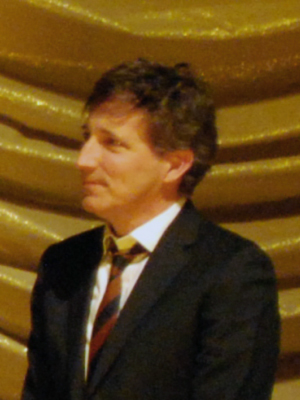 Peter Spears at the showing of Call Me By Your Name at the Berlin Film Festival 2017